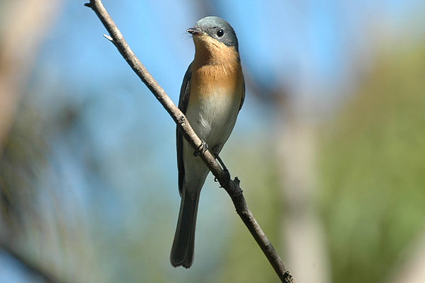 Female Leaden Flycatcher (Myiagra rubecula)